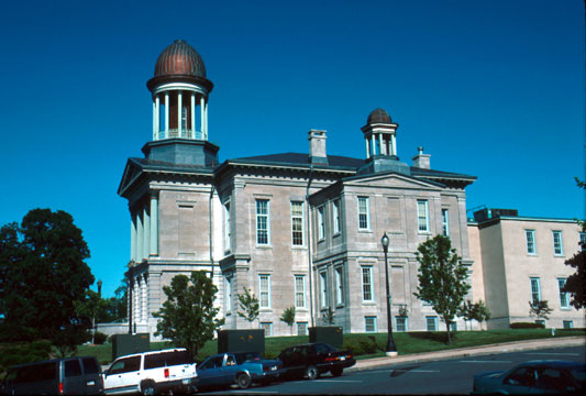 Oswego County Courthouse, (Built 1860), Oswego, New York This image or file is a work of a United States Department of Agriculture employee, taken or made as part of that person's official duties. As a work of the U.S. federal government, the image is in the public domain. Object location43° 27′ 26″ N, 76° 30′ 22″ W